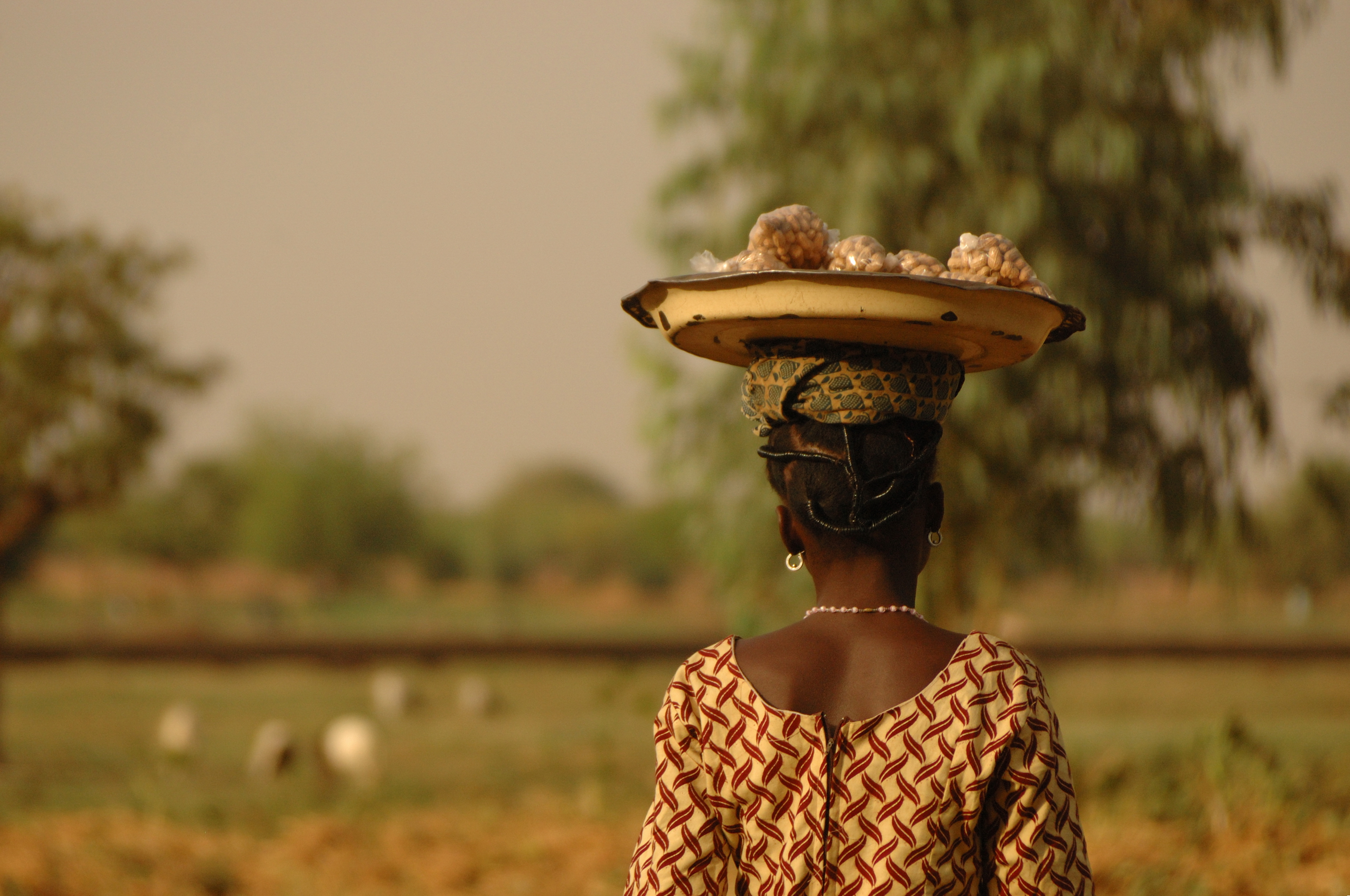 Peanuts seller in Ouagadougou.